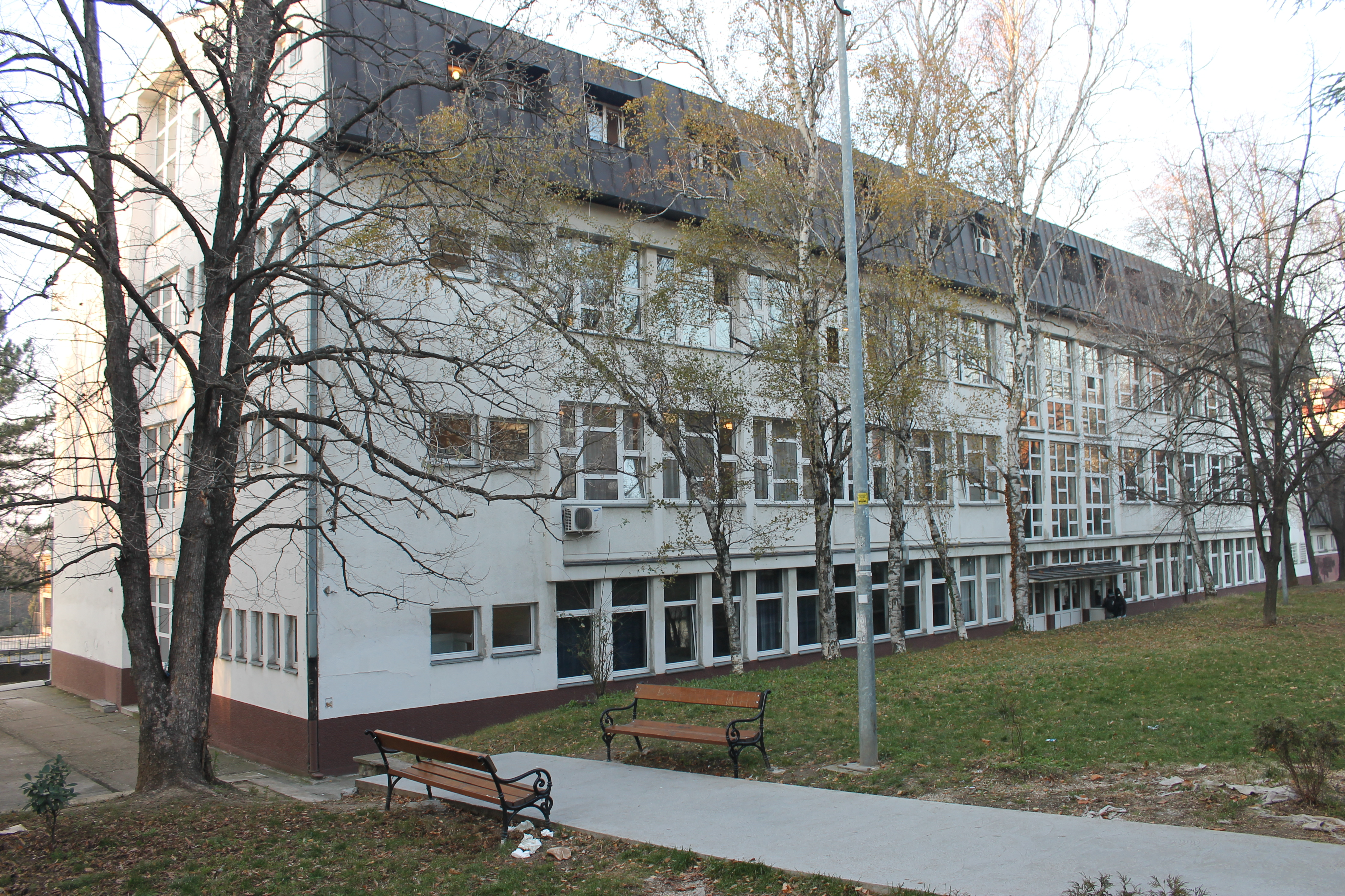 XIII Belgrade Gymnasium